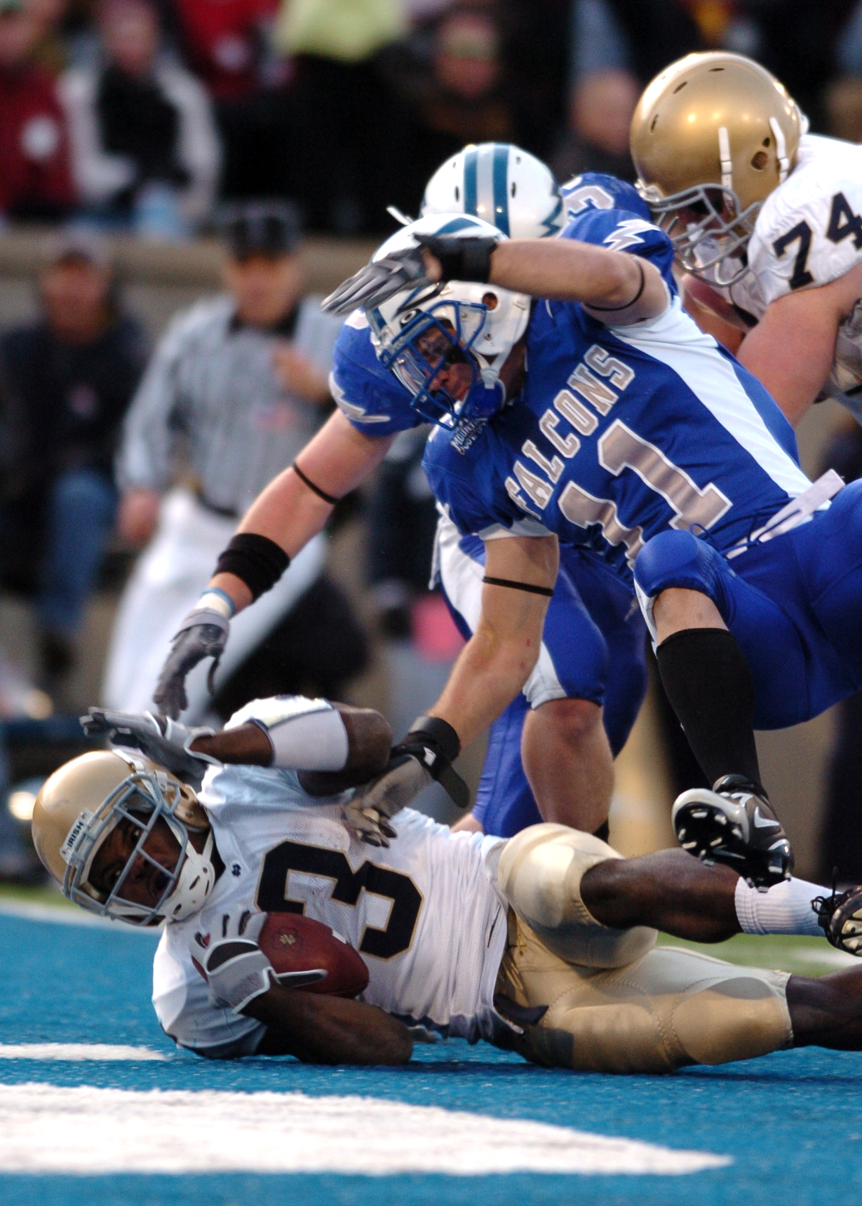 Notre Dame running back Darius Walker (en) breaks through the Falcons' line for a fourth-quarter touchdown Saturday. Walker led the Irish with 153 yards on the ground as 8th-ranked Notre Dame defeated Air Force, 39-17. (U.S. Air Force photo/1st Lt. John Ross)